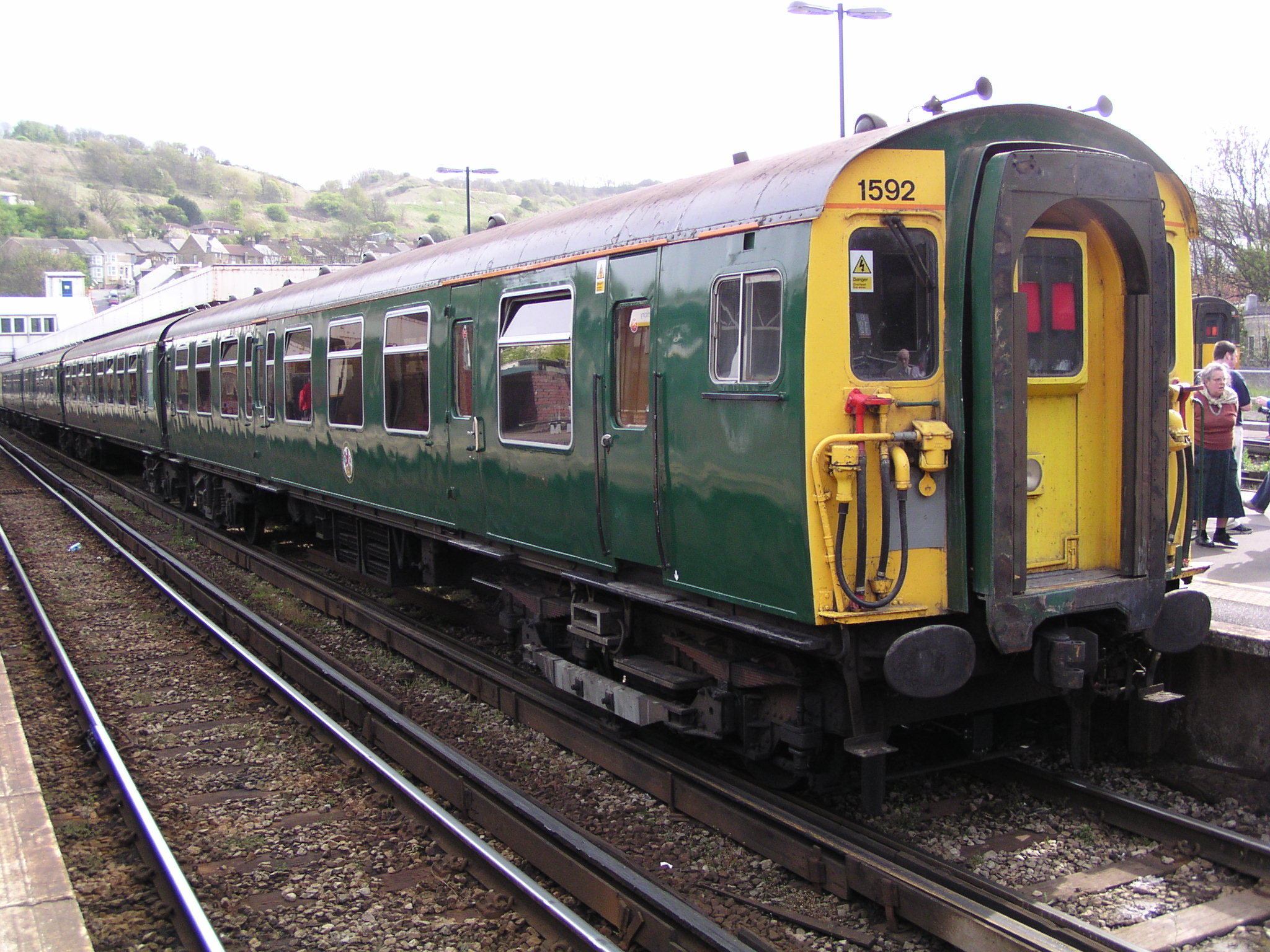 BR Class 411, no. 1592, at Dover Priory